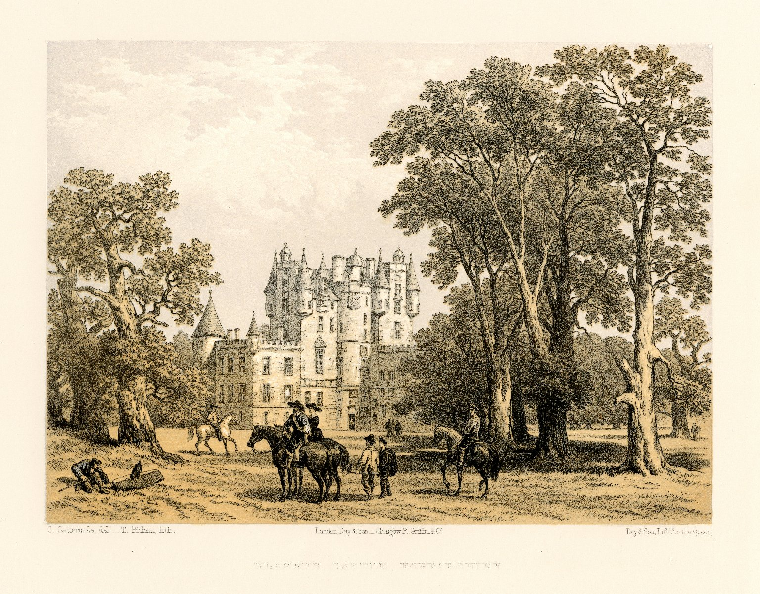 Depicts Glamis Castle, Angus. Scott visited Glamis (or Glammis) Castle, seat of the Earl of Strathmore in 1793. In his Letters on Demonology and Witchcraft (1830), he recalls experiencing 'that degree of superstitious awe that my countrymen call eerie' when spending the night at the notoriously haunted castle. He wrote: 'I must own, that as I heard door after door shut, after my conductor had retired, I began to consider myself too far from the living and somewhat too near the dead' (Letter X). Glenallan House in Scott's novel, The Antiquary (1816), is said to be based on Glamis Castle.